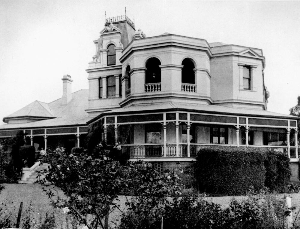 Edward George Blume's residence, Stanley Hall, in Ascot, Brisbane, ca. 1913 This large masonry residence was erected in 1885-86 as a single-storeyed building for successful Brisbane produce dealer John William Forth. In 1890 the house was remodelled and two-storeyed additions were constructed for the subsequent owner, Western Queensland pastoralist, Herbert Hunter. Hunter was a successful grazier and horse racing enthusiast and appears to have acquired the house for its proximity to Eagle Farm Racecourse. In 1889 he commissioned Brisbane architect, GHM Addison, to remodel the house and design extensive additions. The house was virtually rebuilt in 1889-90 with an upper storey and tower being added. A gabled timber coachhouse and stables were erected near the house and an extensive orchard was established occupying the block now bounded by Enderley and Alexandra Roads and Florence and Craven Streets.